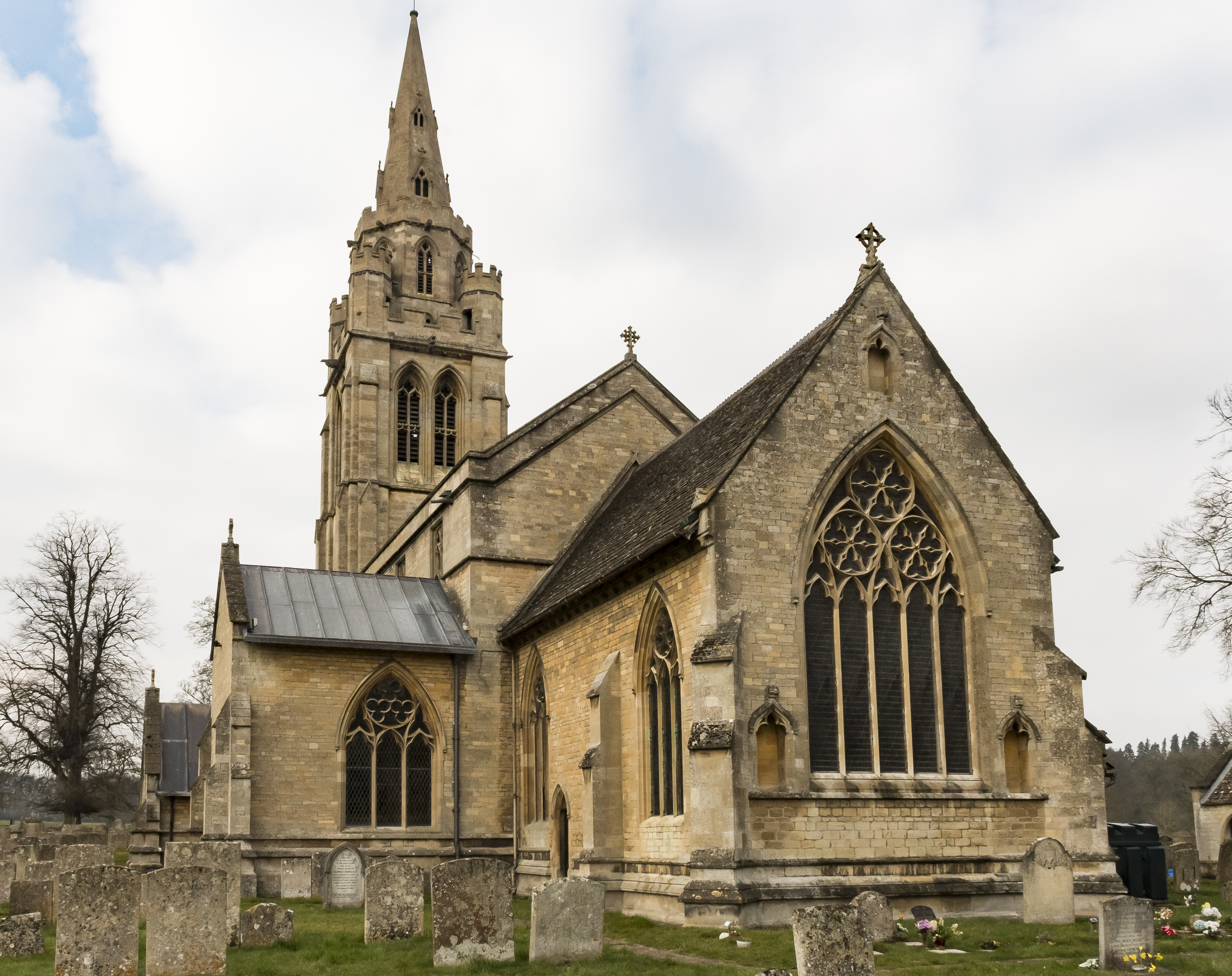 The present church dates from the 13th and 14th centuries, although it was much restored in Victorian times. In fact the whole appearance makes it seem Victorian. The cause of the restoration was a hailstorm on 25th April 1843 when the spire was struck by lightning and masonry fell into the nave destroying the roof and the old gallery at the west end. The vicar at the time, the Honourable and Reverend Leland Noel (a brother of the Earl of Gainsborough), immediately began the work of restoration and employed a young London architect, Richard Cromwell Carpenter (1812-55). Apparently he found much needed doing, not just as a result of the lightning strike. He would have liked to do a great deal but a dispute arose between the Vicar and the parish. Whatever the reason he was replaced in 1851 by well-known architect John Loughborough Pearson. Pearson had also worked on the tower and choir of Peterborough Cathedral.